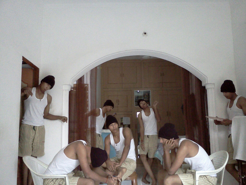 Multi Exposer